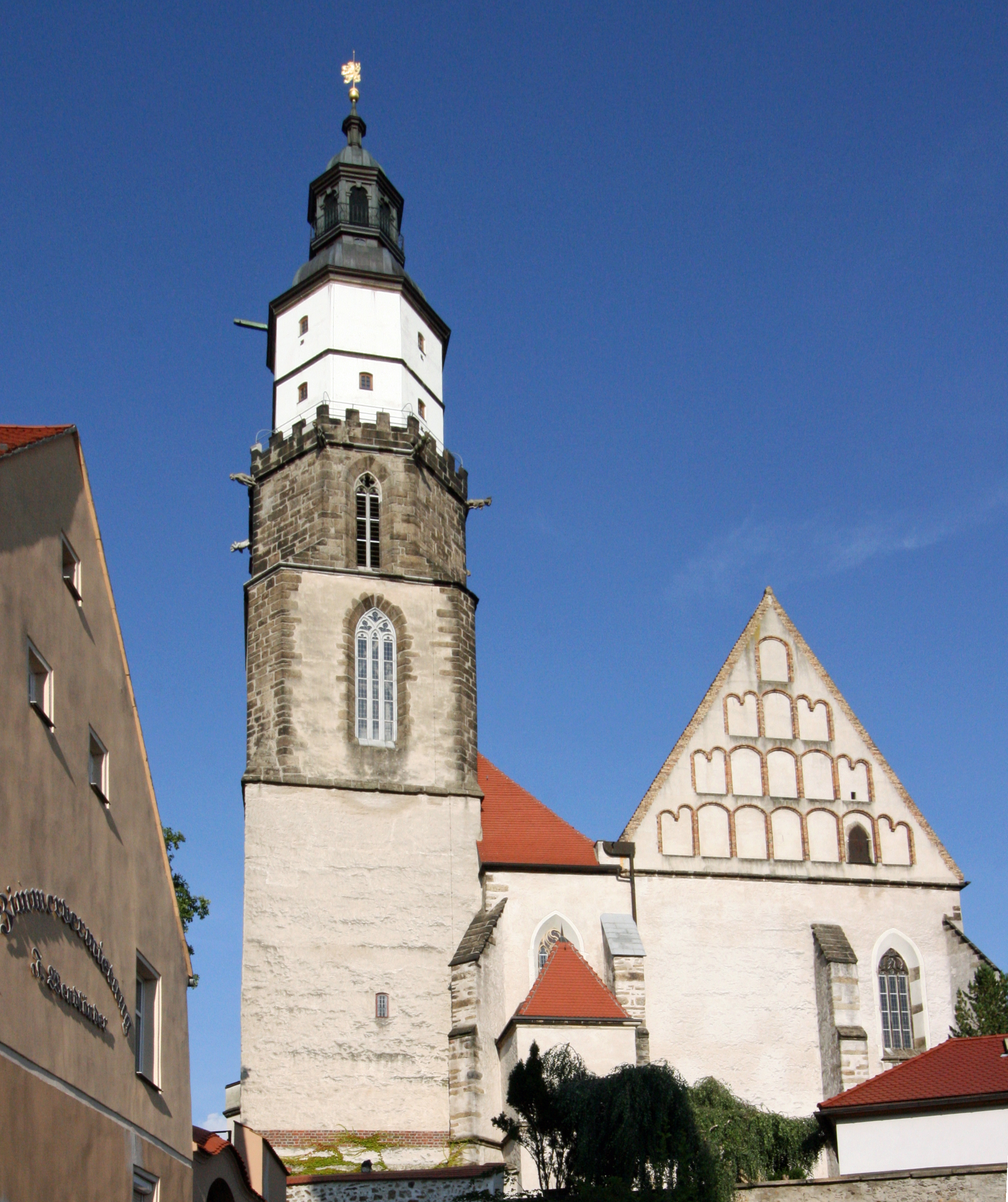 Hauptkirche (main church) St. Marien in Kamenz (Germany, Saxony)